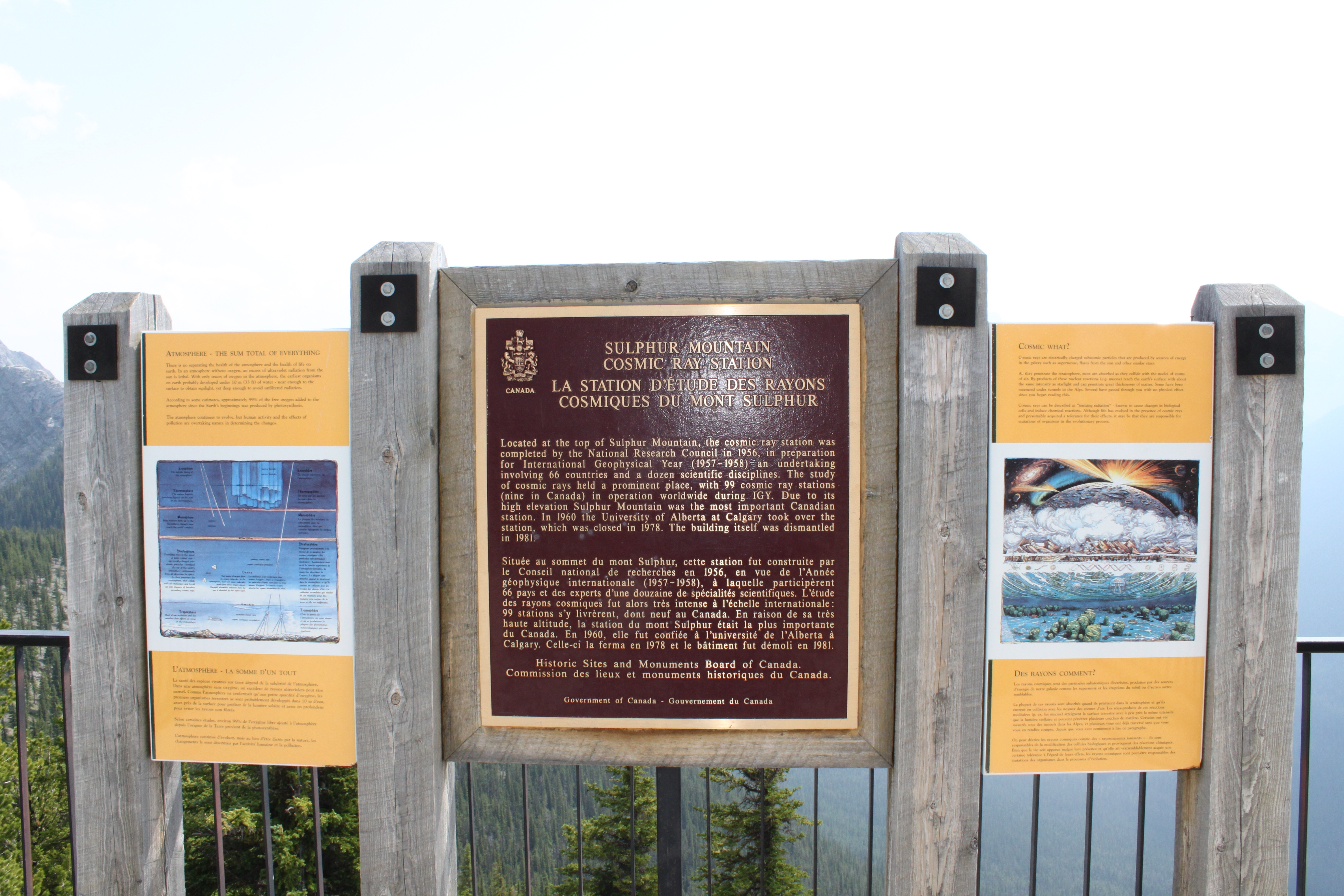 Sulphur Mountain Cosmic Ray Station plaque. Sanson Peak, Banff National Park, Alberta, Canada.